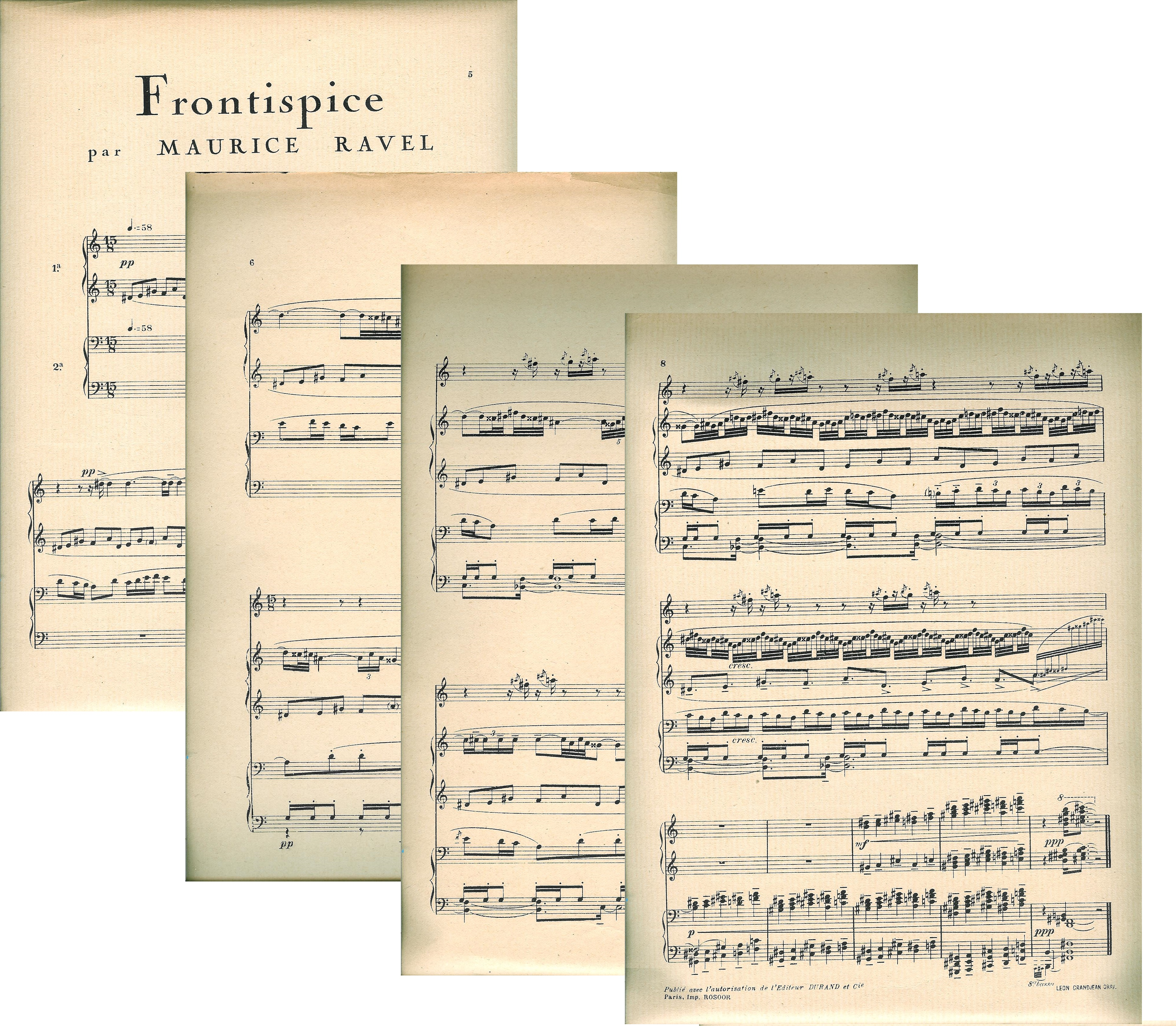 In 1919 Maurice Ravel engaged this Paris fashion magazine to publish his composition Frontispice for two pianos, five hands. His publishing house, Durand et Cie apparently took legal action to have all copies of the magazine already printed destroyed, so originals of this publication are quite unusual Other information